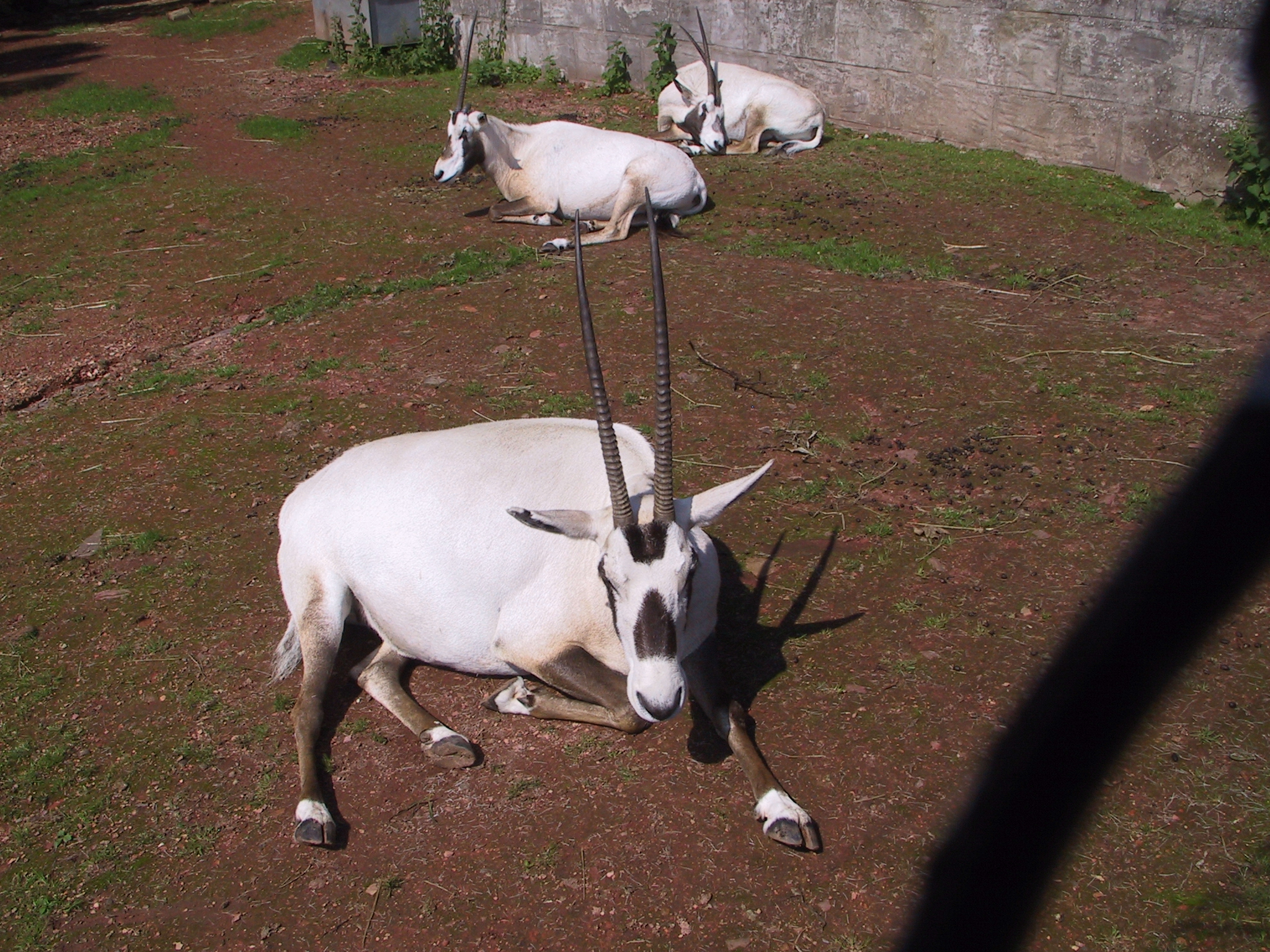 The oryx is a beautiful antelope species. There are several black and white Arabian oryx in Edinburgh Zoo.